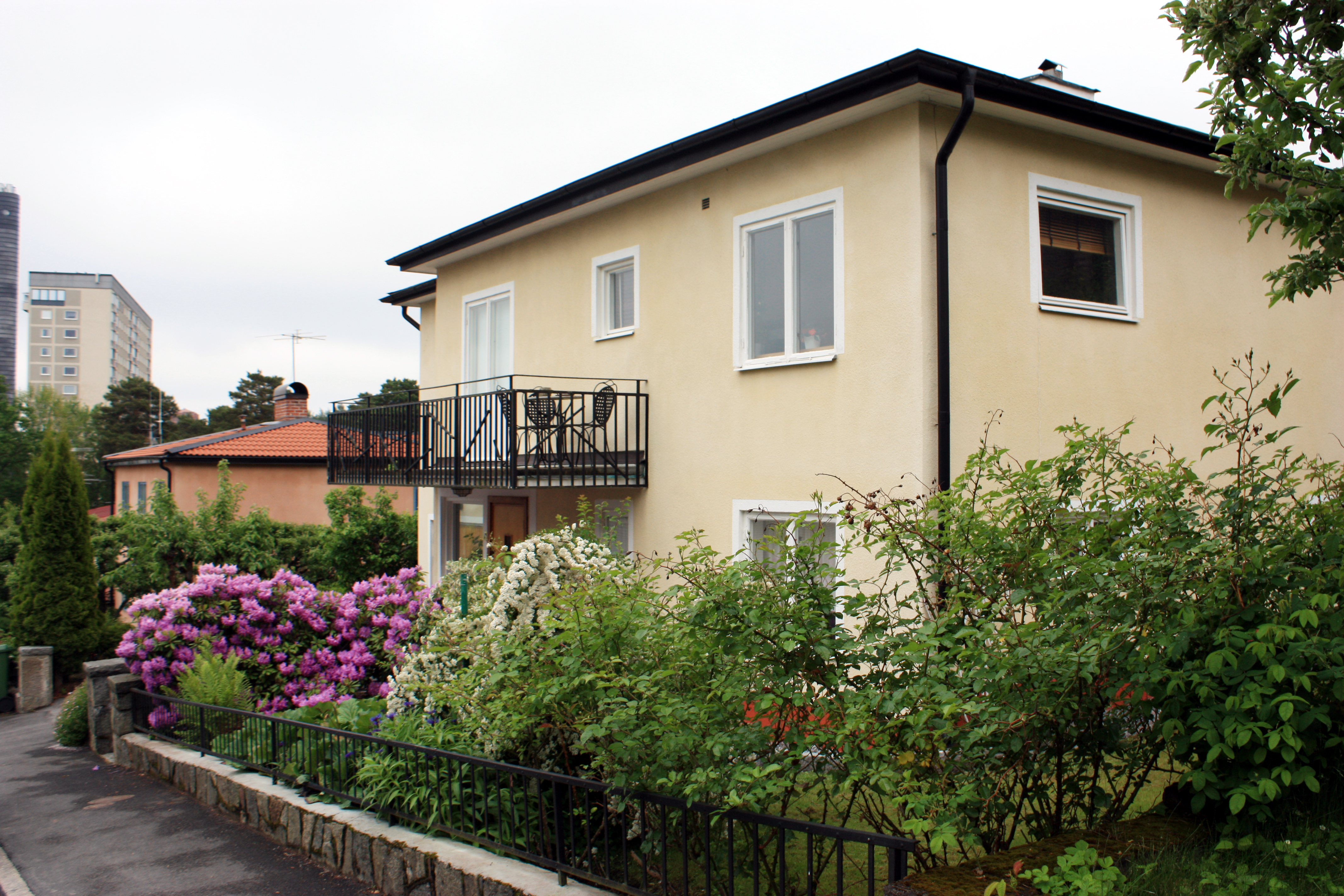 A house at Tulemarken in Sundbyberg, Stockholm, Sweden.